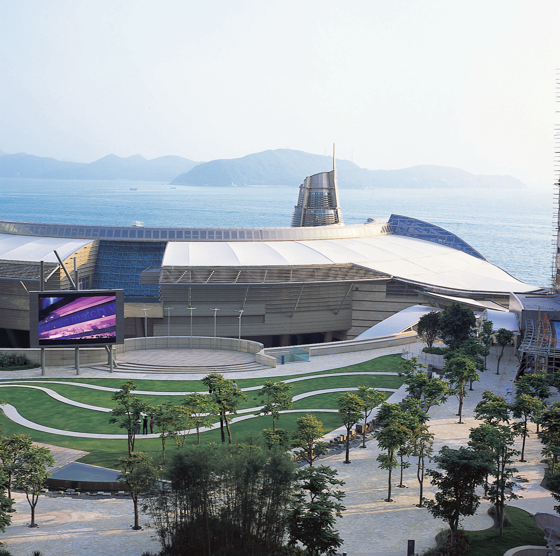 The Podium